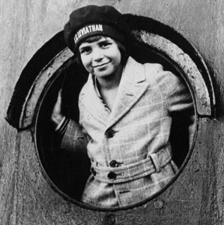 American child actor Jackie Coogan on board SS Leviathan in 1924.